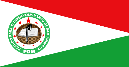 Bandeira do Partido PDM